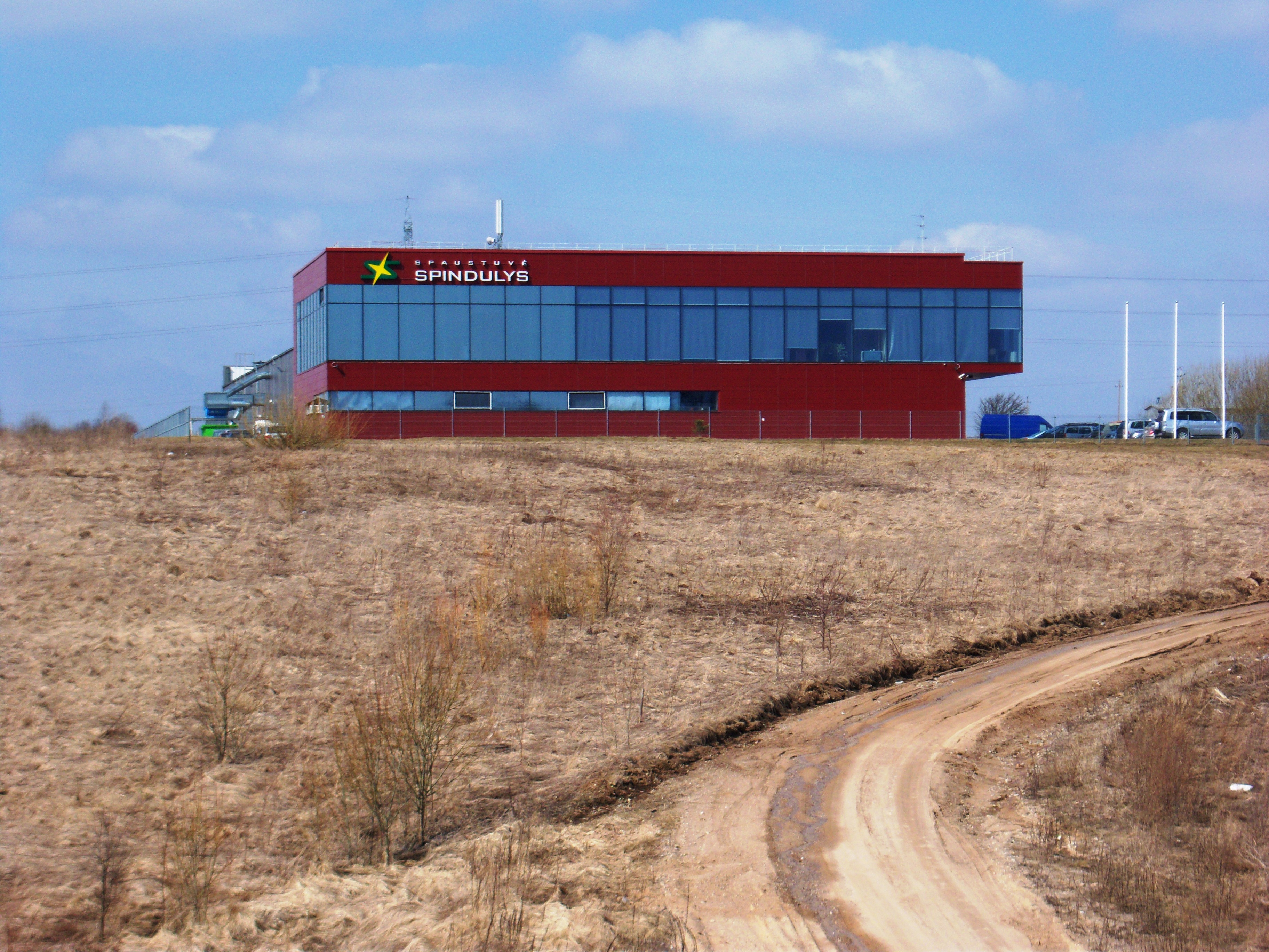 Spindulys printing house, Kaunas, Lithuania